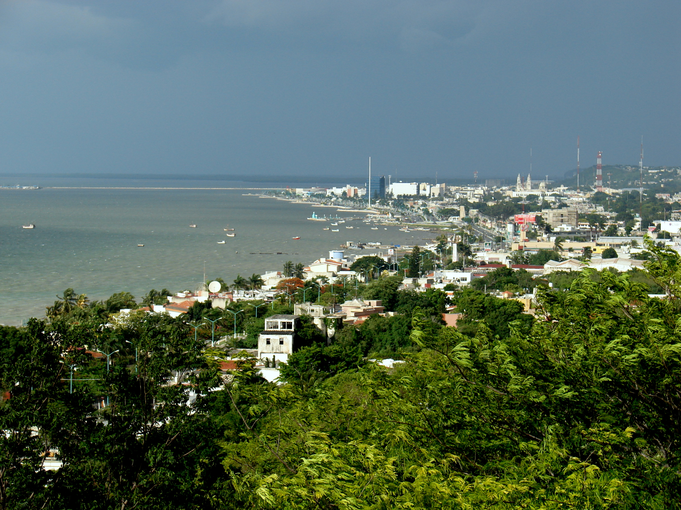 Panoramic of Campeche City, Campeche, Mexico